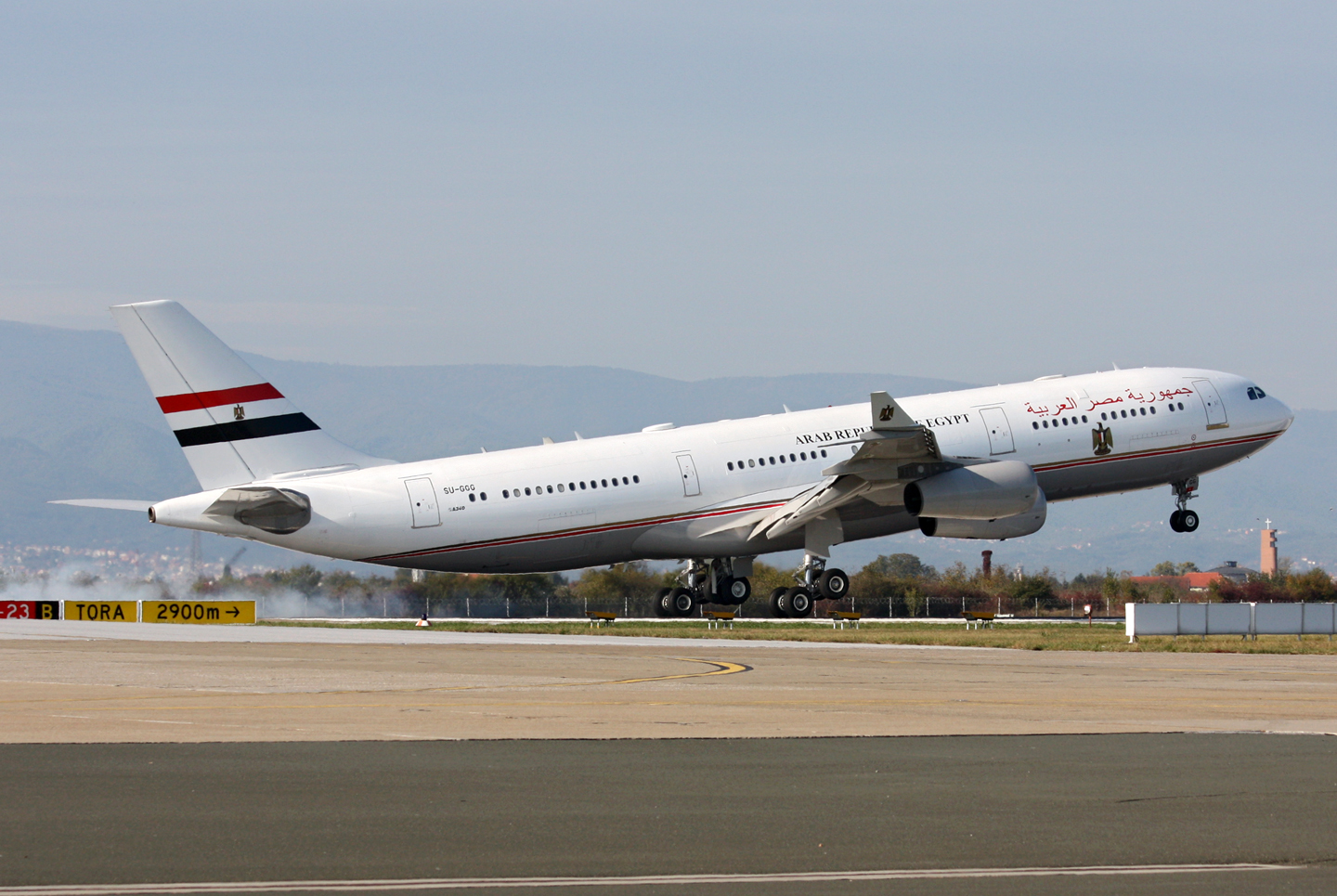 Egypts President Hosni Mubarak visited Croatia.